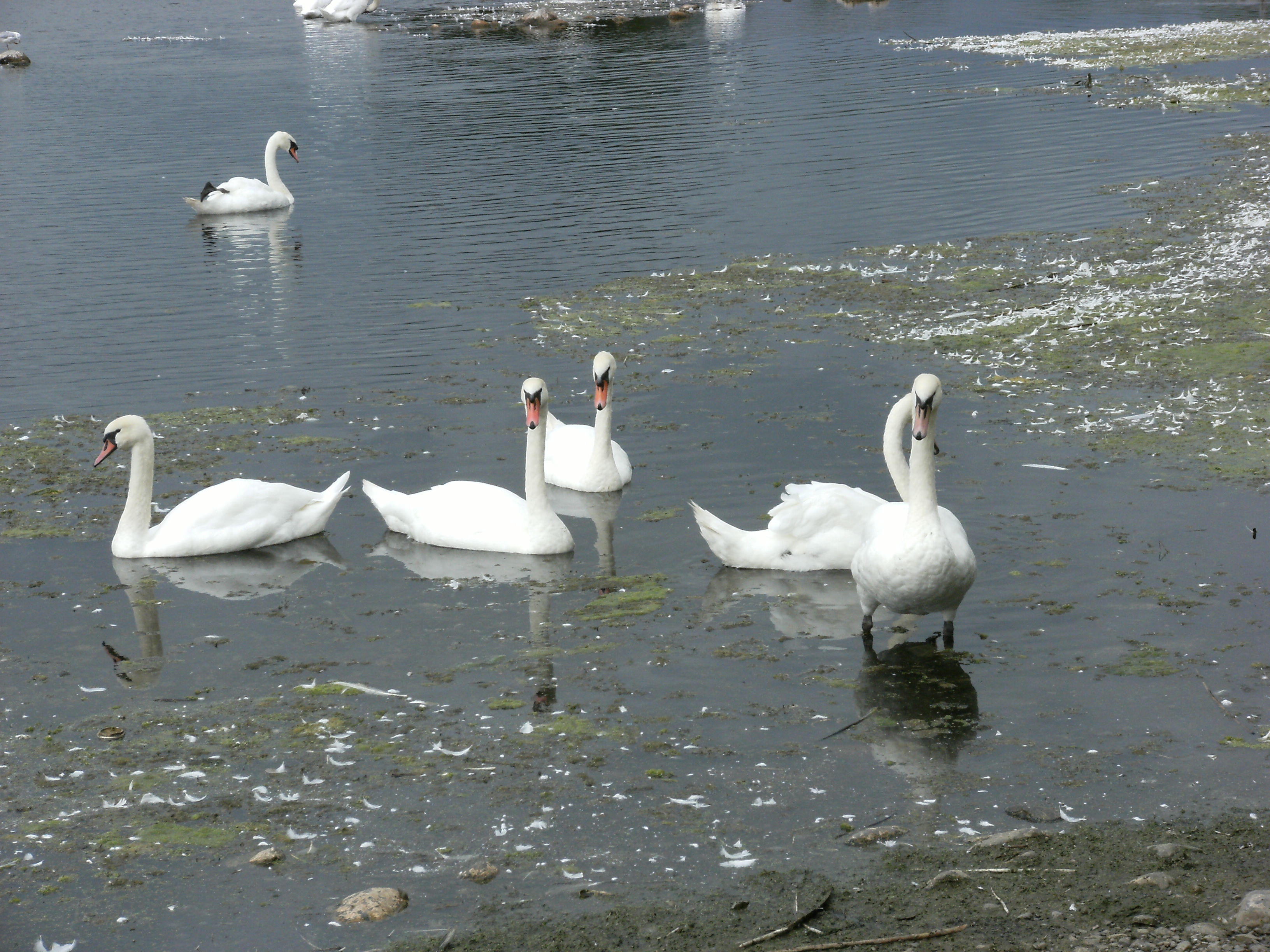 Swans on Lough Derravaragh in County Westmeath, Ireland